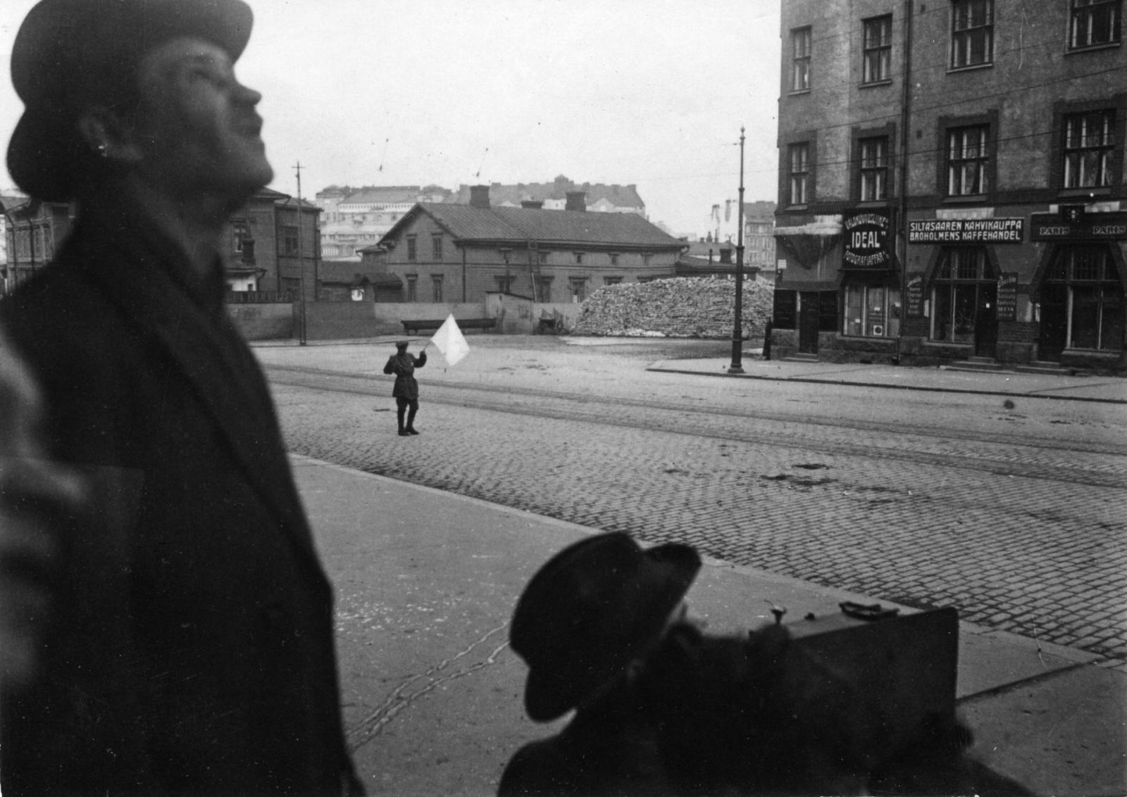 1918 Finnish Civil War, Battle of Helsinki: Red Guard fighter surrendering to the German troops in the working class district of Siltasaari.